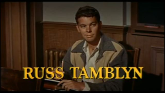 Russ Tamblyn is Norman Page in "Peyton Place"